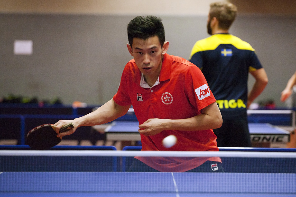 ITTF World Tour 2017 German Open, Magdeburg, Germany, 7 Nov 2017 - 12 Nov 2017, Wong Chun Ting